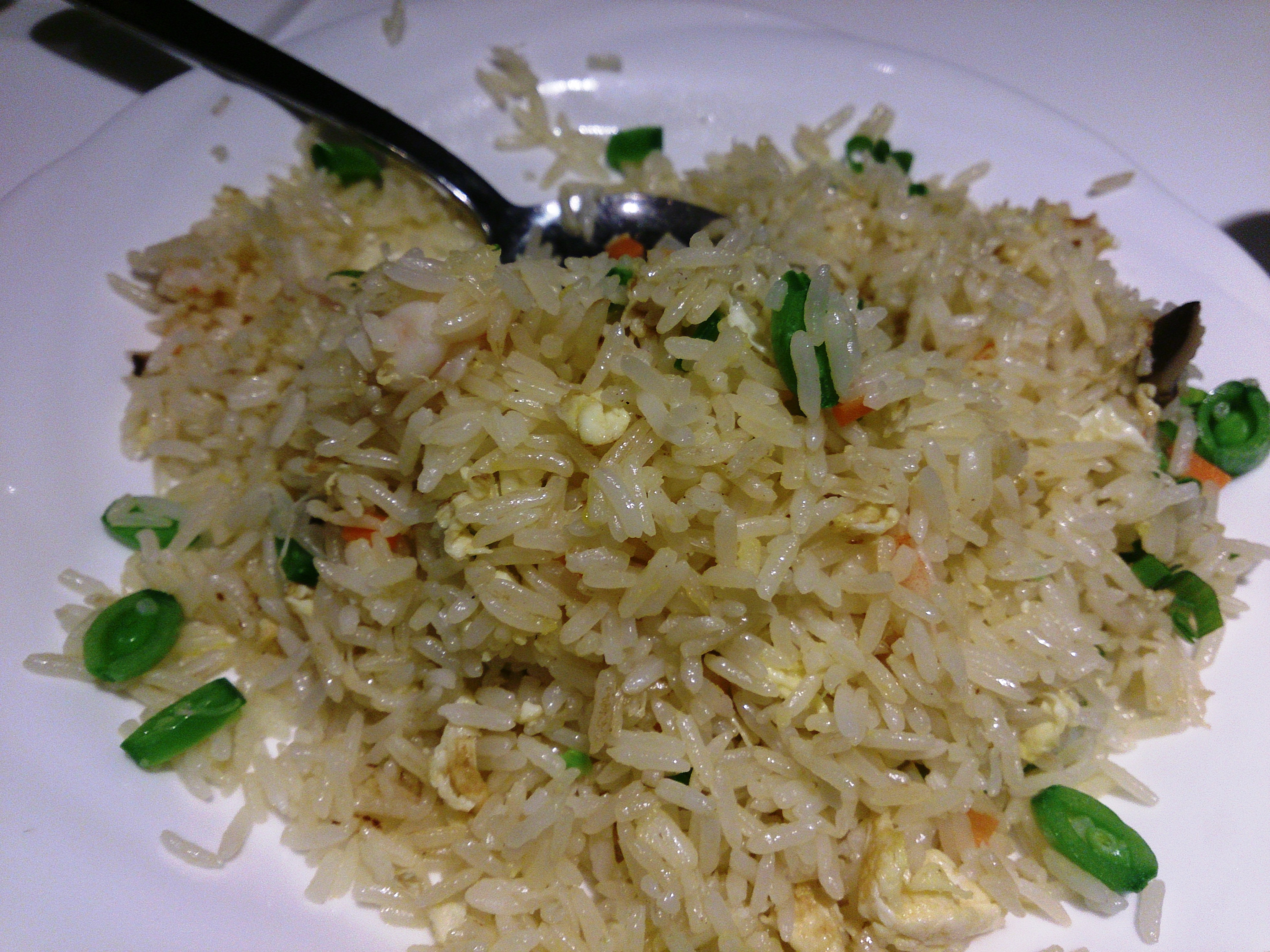 yum yum